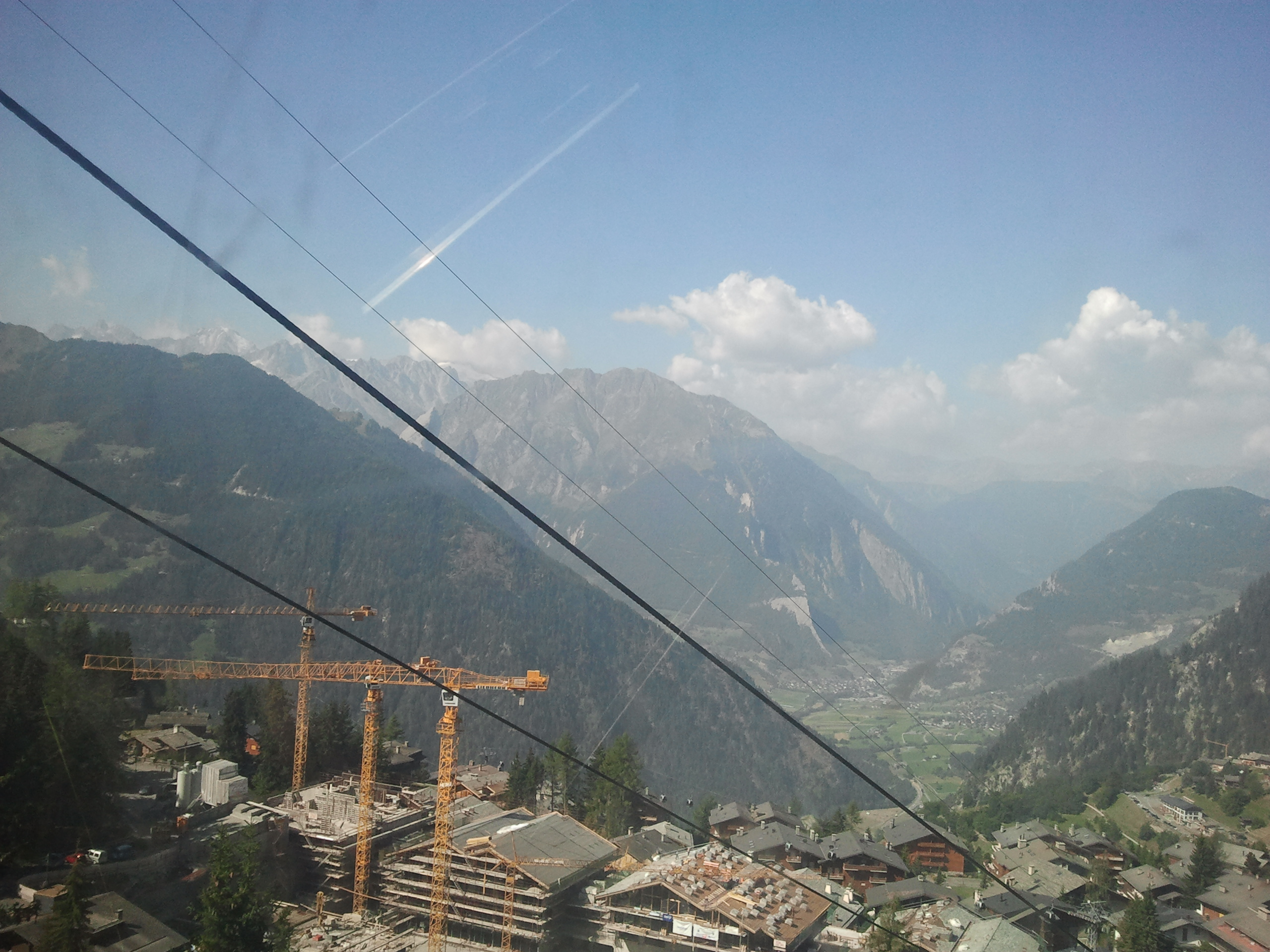 Verbier in Switzerland